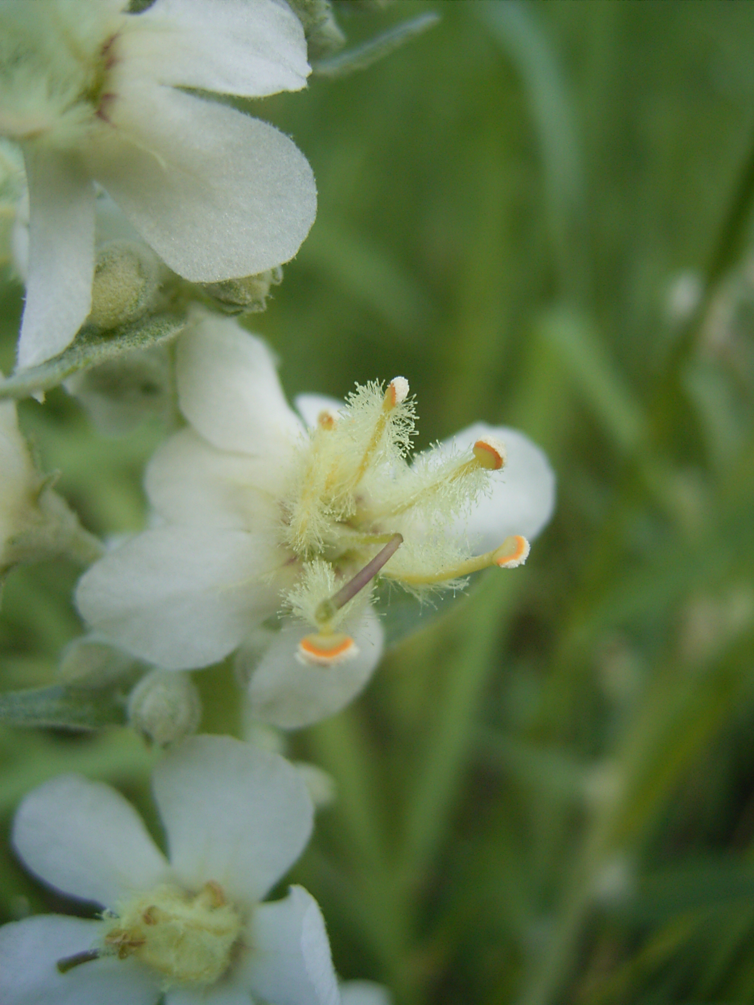 Deze foto toont de bloemen van de Melige toorts. Ik nam de foto bij station Mariahoevein Den Haag. This pic shows the flowers of Verbascum lychnitis. I took the pic near a railwaystation in The Hague, Netherlands.